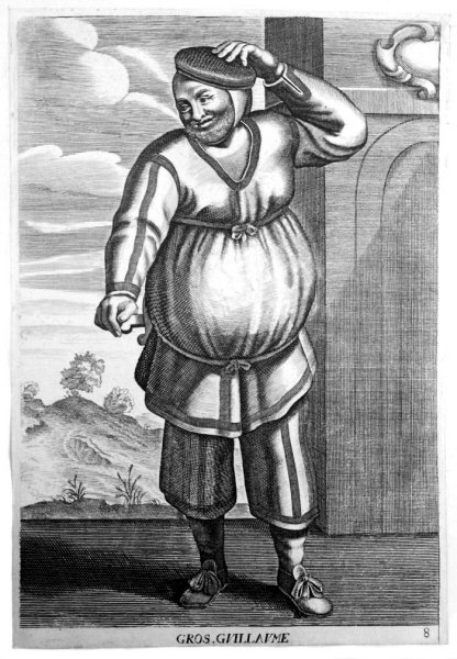 Gros-Guillaume, etching by John Collins. Ashmolean Museum (Oxford)